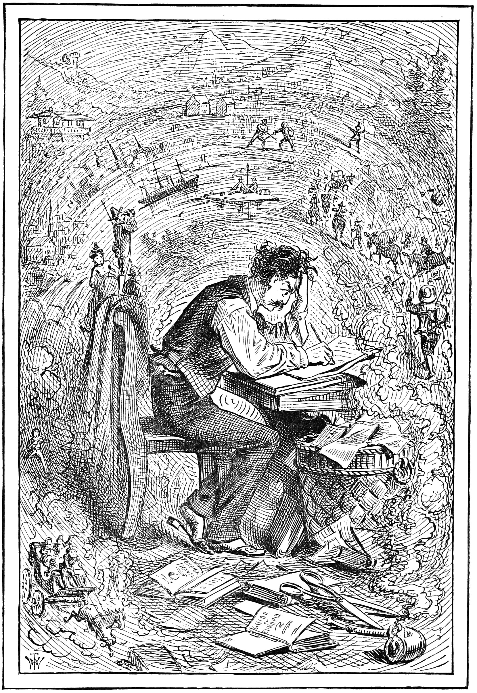 Image from a scanned copy of a book "A Tramp Abroad" (1880) by Mark Twain. Image has been cropped and the sepia tones removed.